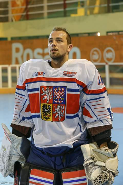 Daniel Brabec in Czech national team